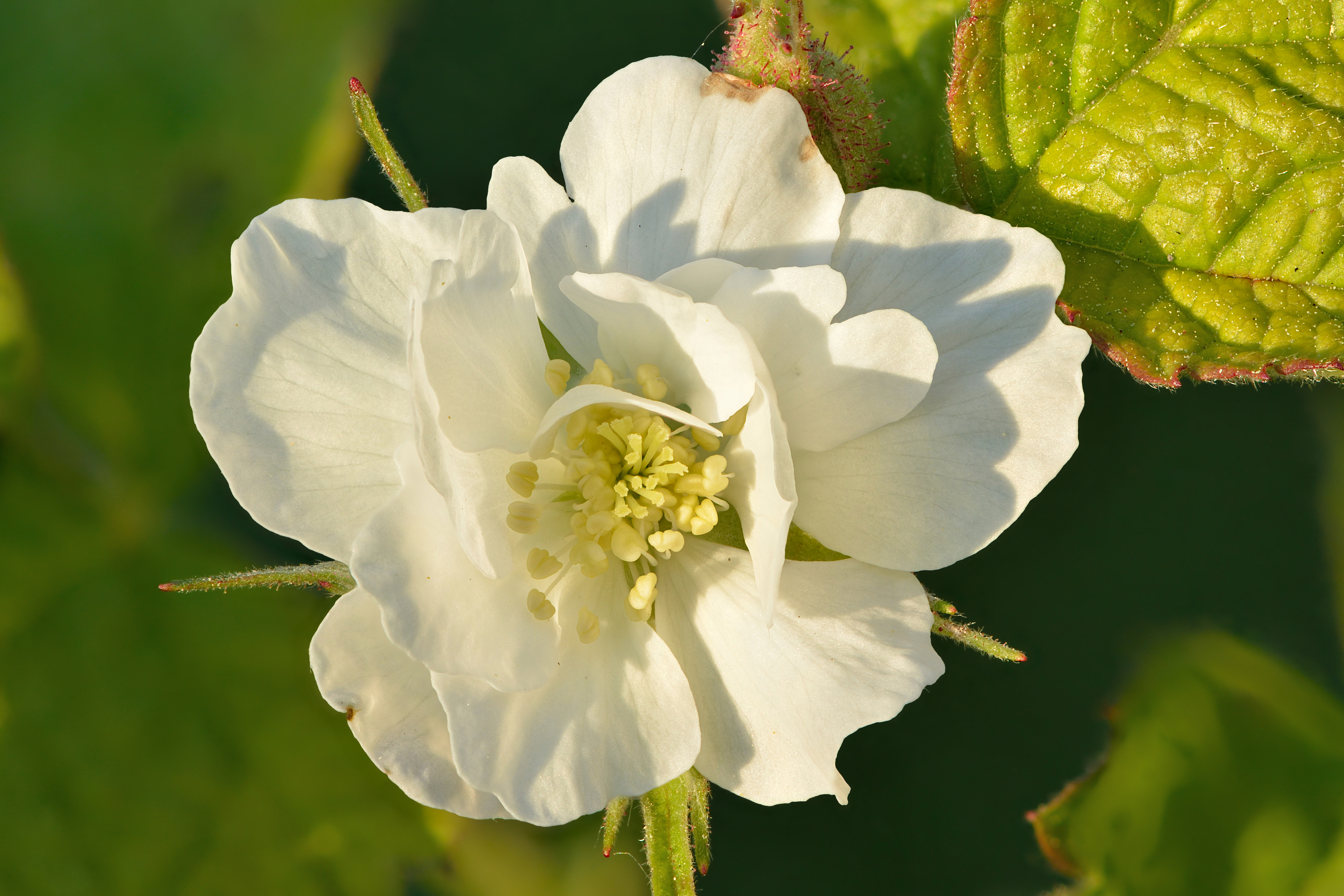 Flowering Rubus caesius, natural habitat in northwestern part of Keila (Estonia)